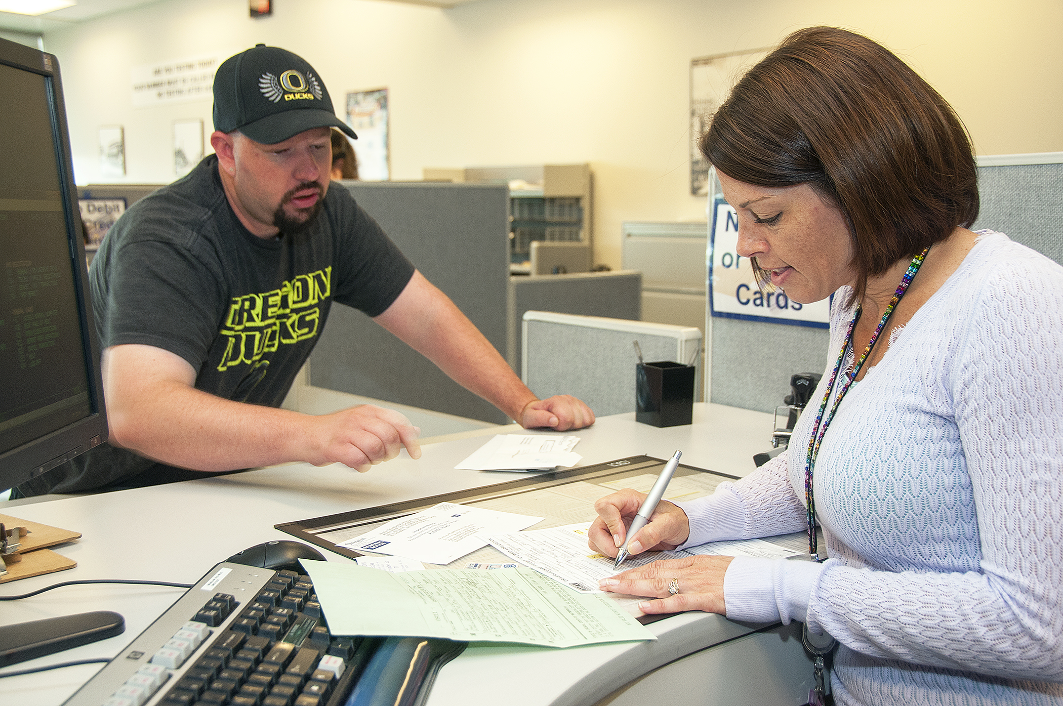 A clerk at DMV goes over a form with a customer.